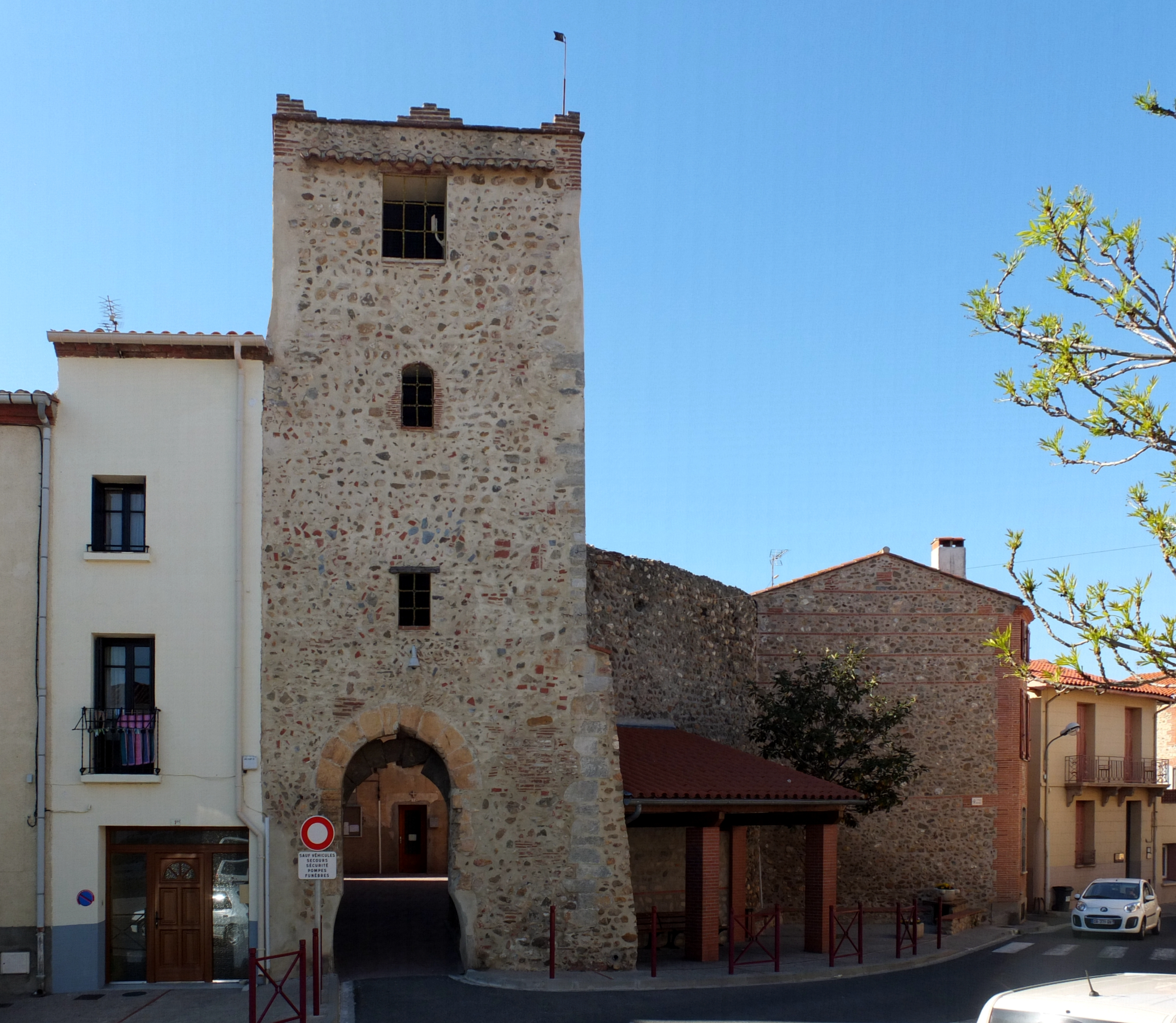 Fortified gate to the old village center